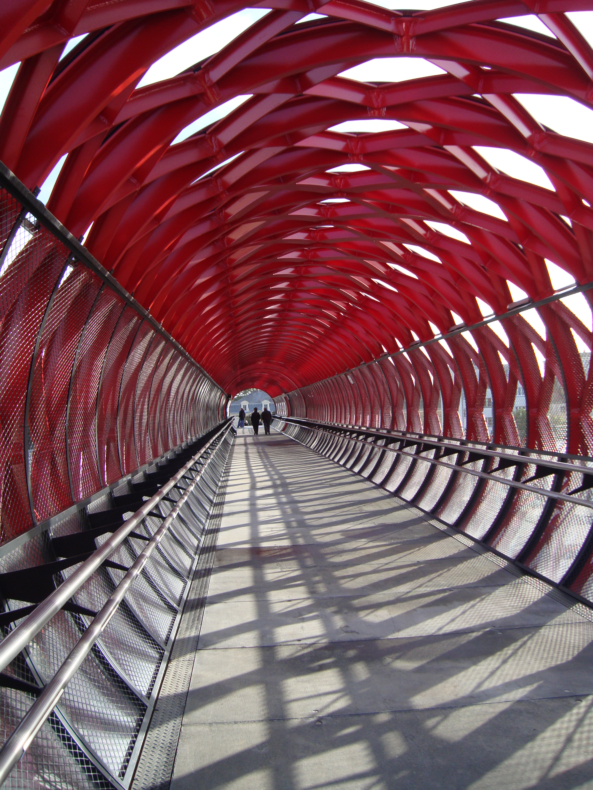 Railway-station of la Roche-sur-Yon